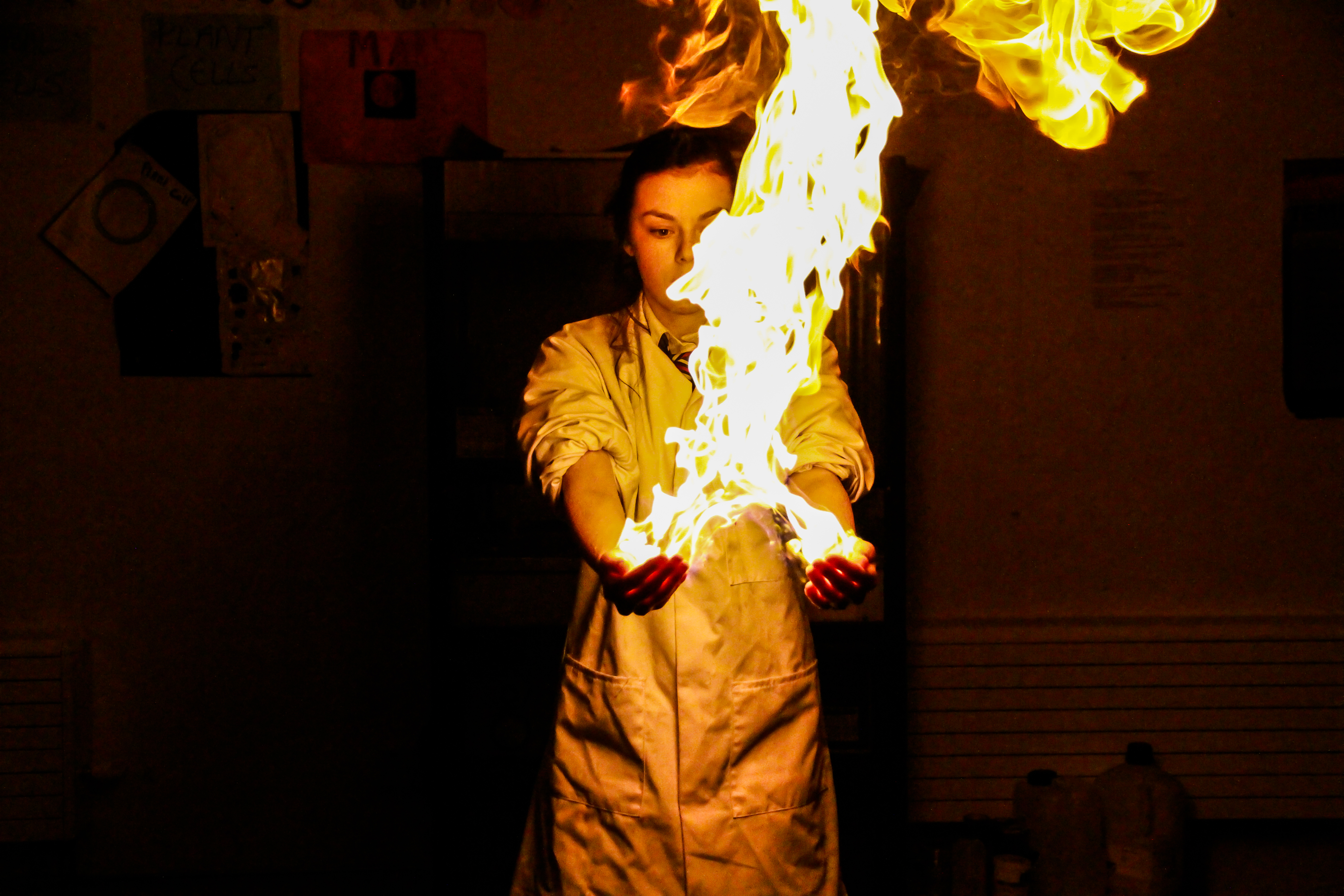 30.11.2017, 2nd level students involved in hands on science experiment. A student is able to hold a ball of fire in their hands due to methane bubbles. The student will begin by dipping their hands in cold water, this acts as a barrier to the heat generated by the combustion of the methane bubbles. The student will then place their hands into a bucket filled with methane bubbles. After this they will leave their hands out straight for a supervised science teacher to light the bubbles with a lighter and splint.